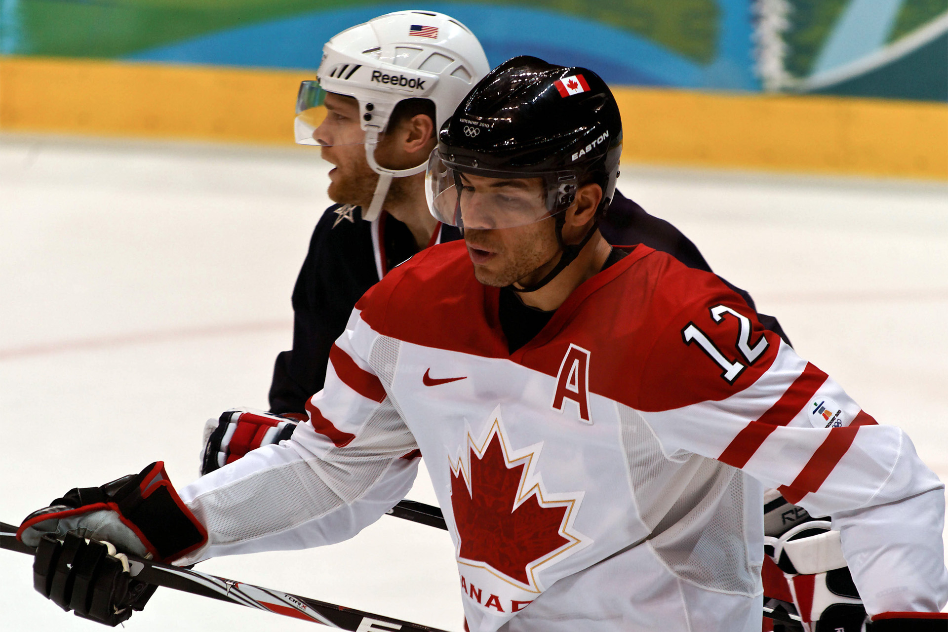 Canada forward Jarome Iginla prepares for a faceoff against the United States in overtime of the gold medal game at the 2010 Winter Olympics